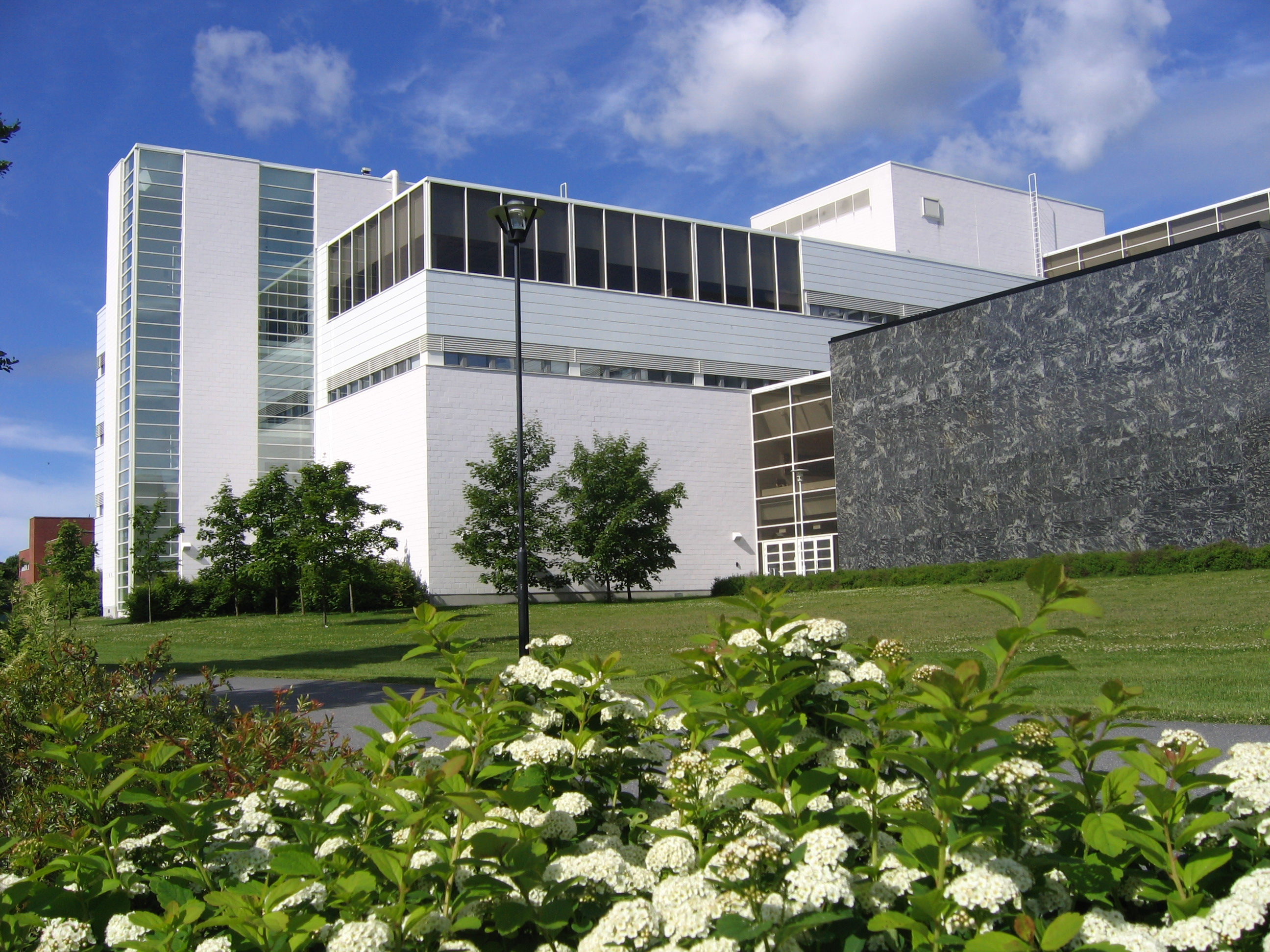 Agora Center in Jyväskylä, Finland